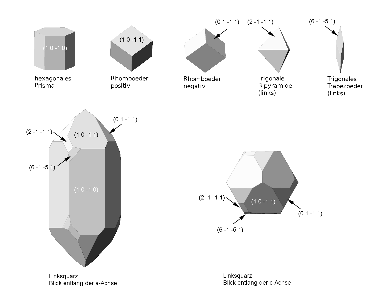 Drawing of left handed low quarz showing basic polyhedra and their combination